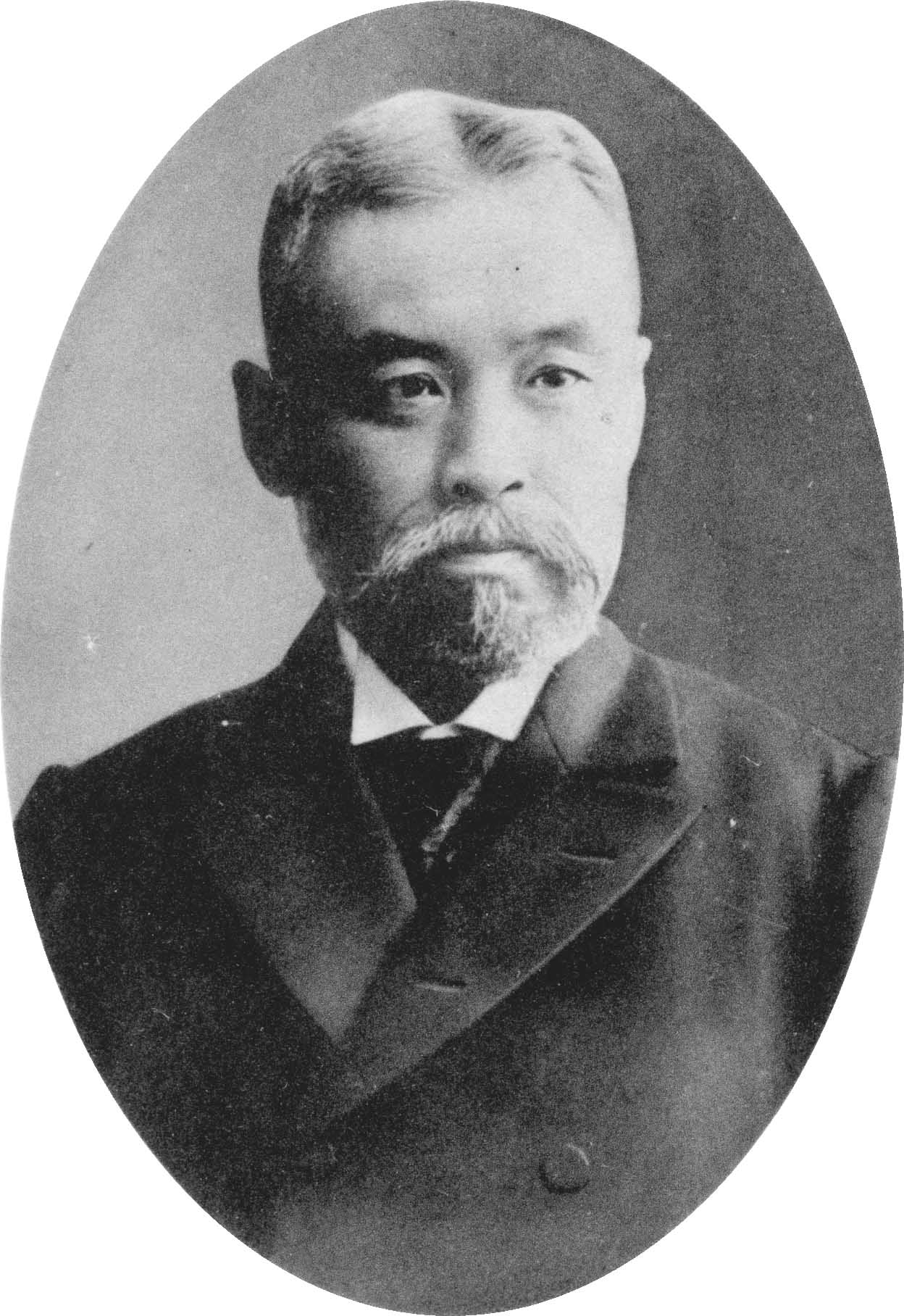 Furuichi Kōi, Director of the College of Engineering at Imperial University of Tokyo.